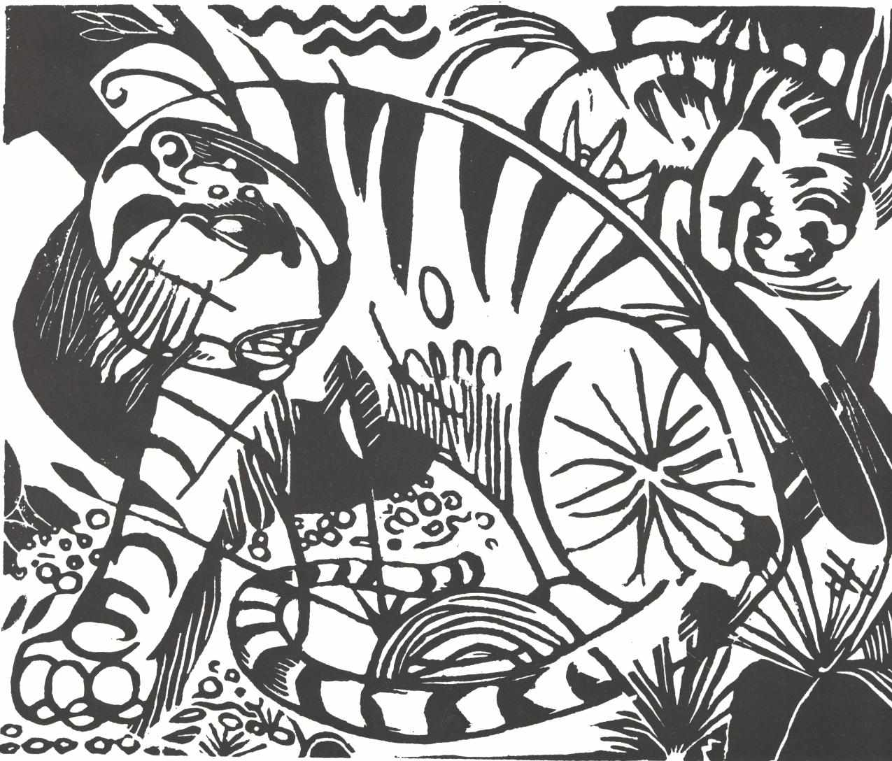 Tiger